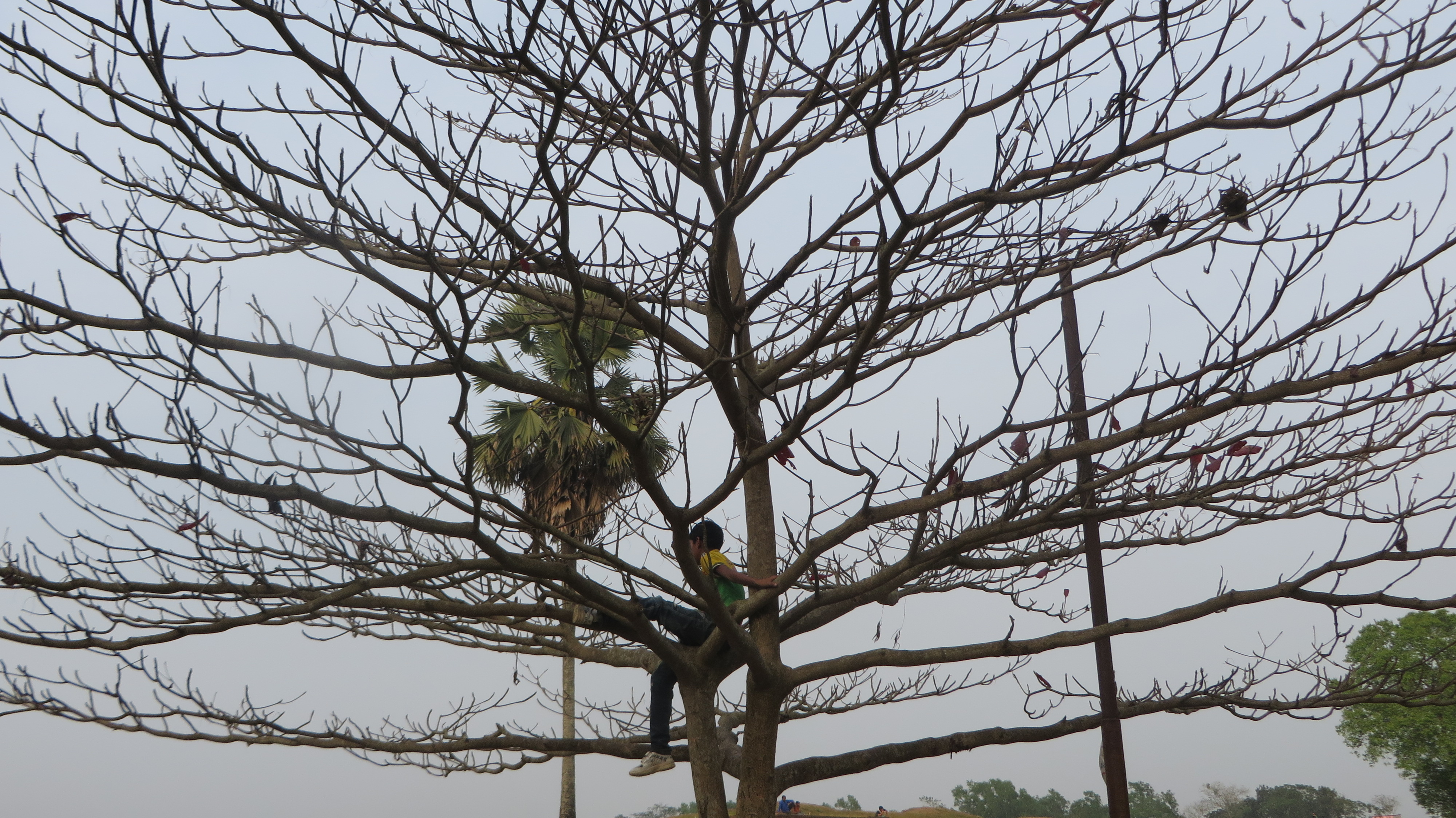 A boy sitting in a tree in Shalban vihara area in Mainamati, Comilla